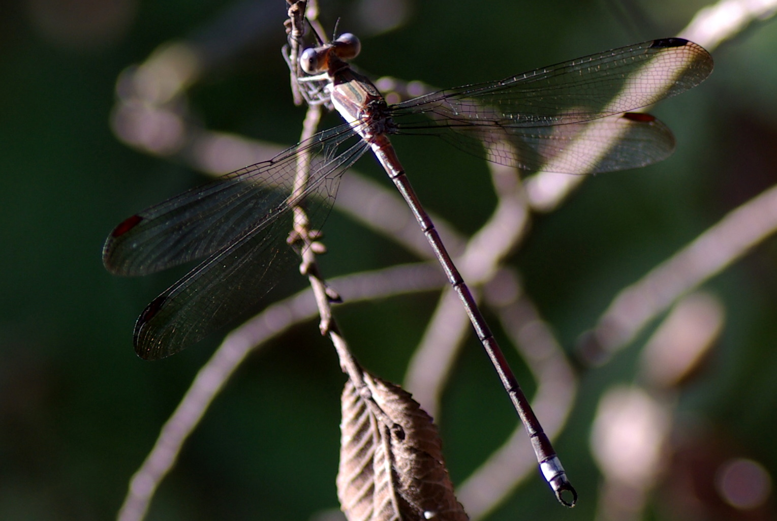 Great Spreadwing (Archilestes grandis) damselfly in the Spring Creek Nature Preserve, Richardson, Texas (Collin County).